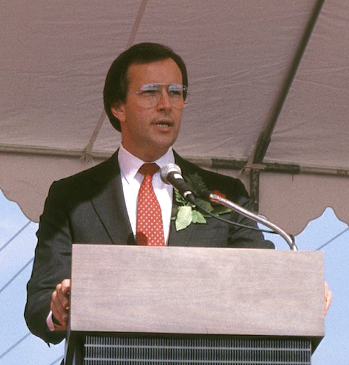 U.S. Representative Les AuCoin (of Oregon) speaking at the opening ceremony for the first MAX light rail line, in Gresham, Oregon, in 1986.